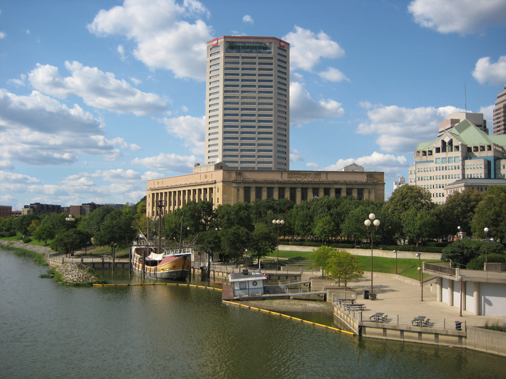 View of the Santa Maria and the AEP building from the Broad St Bridge, Columbus, OH